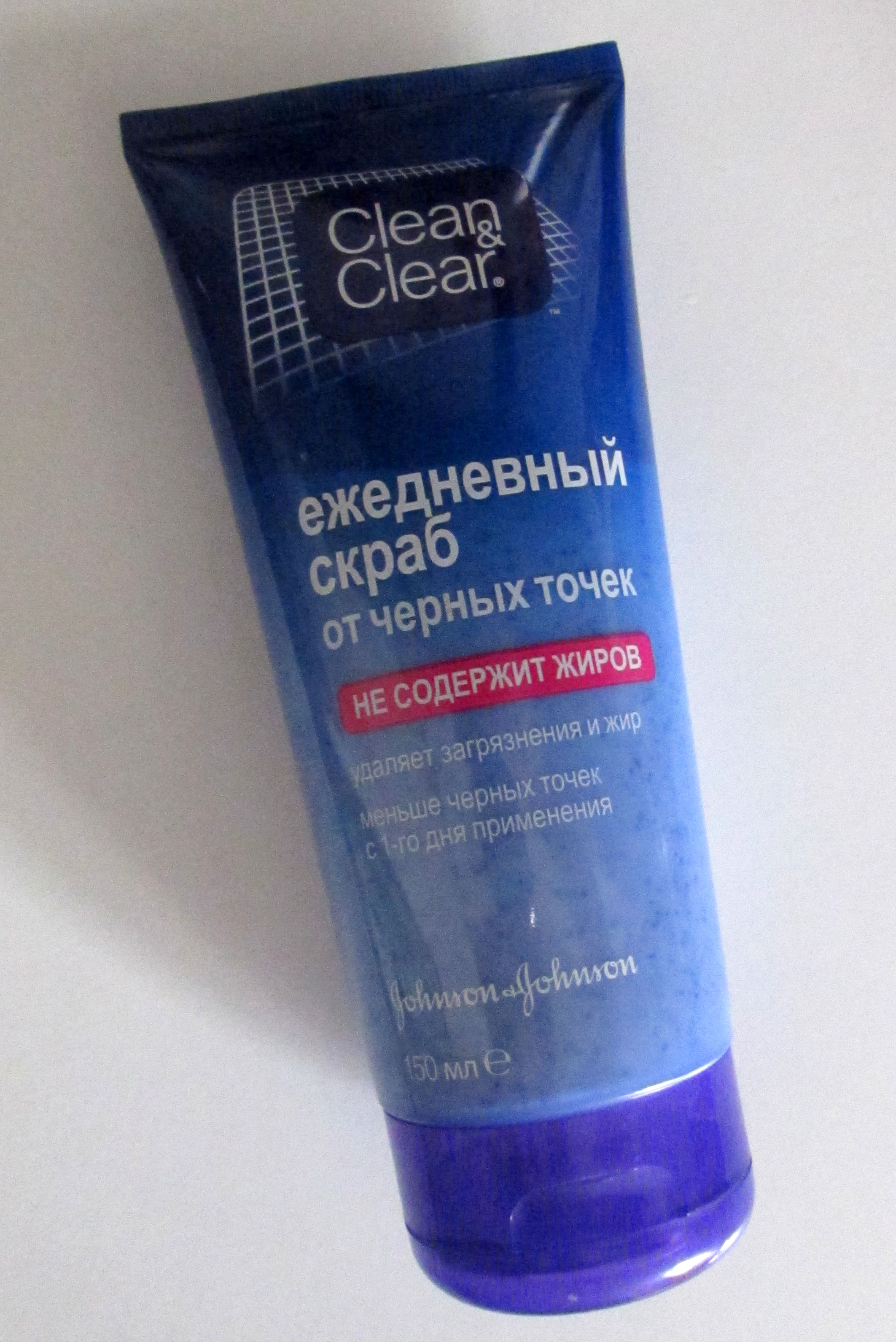 Clean & Clear blackheads scrub, Russia, 2014